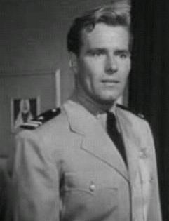 Screenshot of Philip Carey from the film Operation Pacific